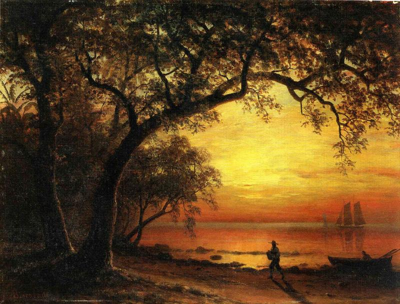 Island of New Providence